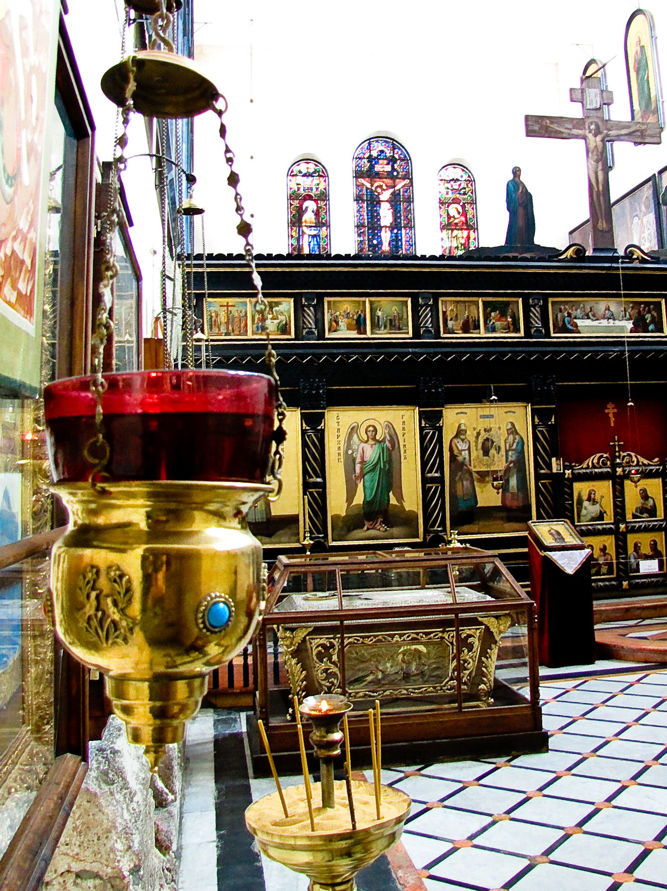 Church of Saint Alexander Nevsky. Alexander's Court. Jerusalem.